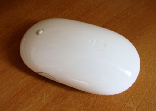 Photo of an Apple Wireless Bluetooth Mighty Mouse.